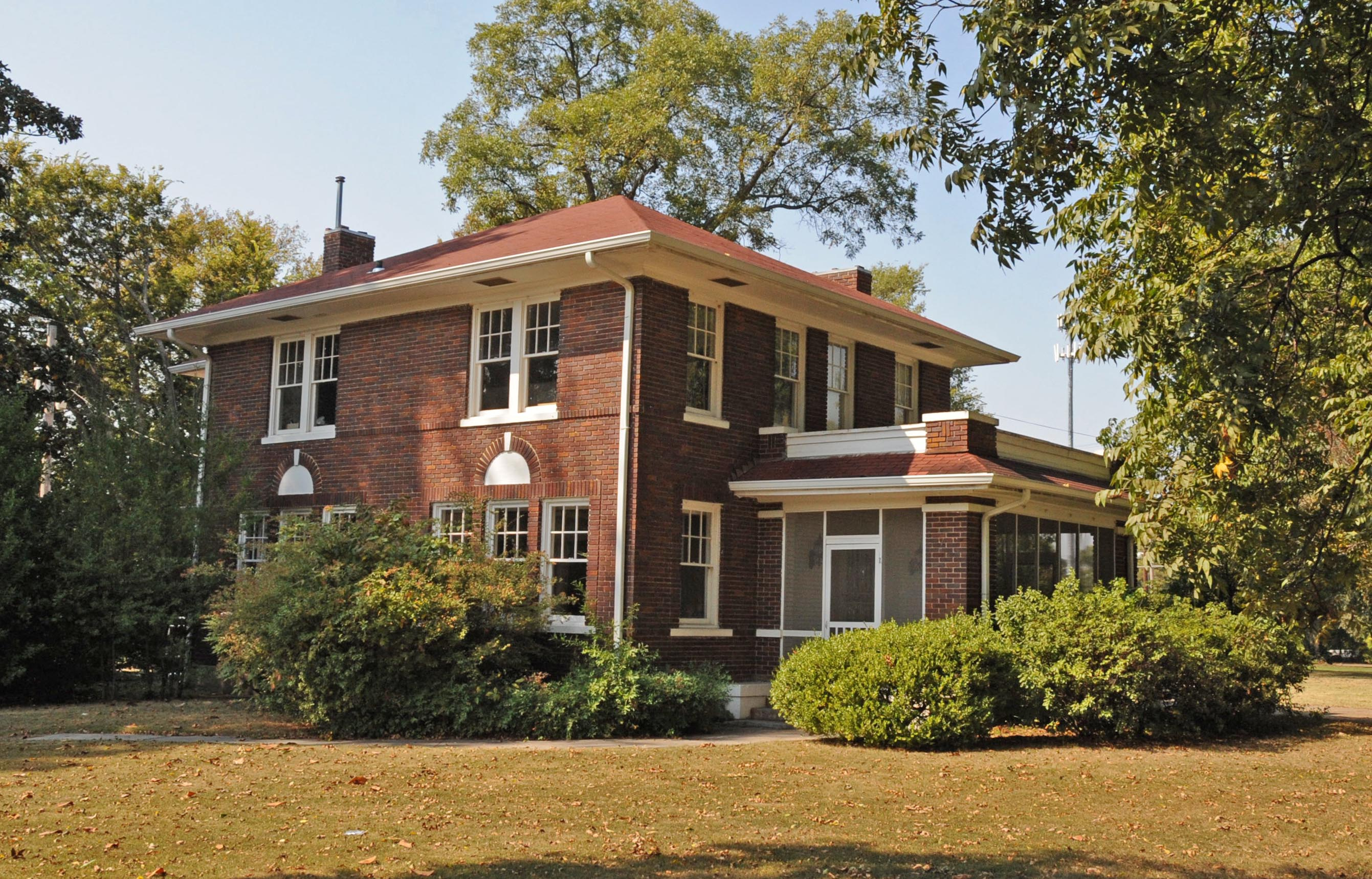 1917; W.W. CAMPBELL WAS A BANKER, CIVIC, AND AGRICULTURAL LEADER WITH NATIONAL INFLUENCE AS PORTRAYED IN READERS DIGEST AND FORTUNE MAGAZINES. HE ENTERTAINED WILL ROGERS, AND GOVERNOR WINTHROP ROCKEFELLER IN THIS HOUSE